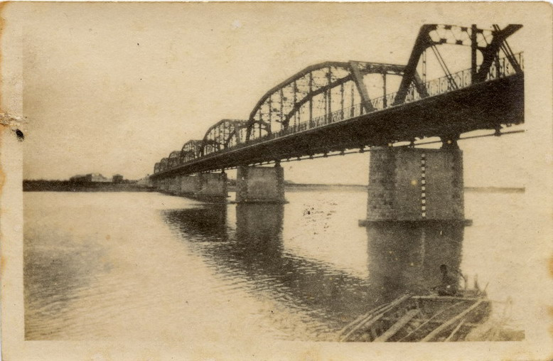 Photo of the iron Taipei Bridge (台北大橋) built in 1925 (Also called the "Seven-Pillar Iron Bridge" 七格鐵橋]).